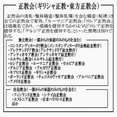 Explanation of Eastern Orthodox Church organization in Japanese